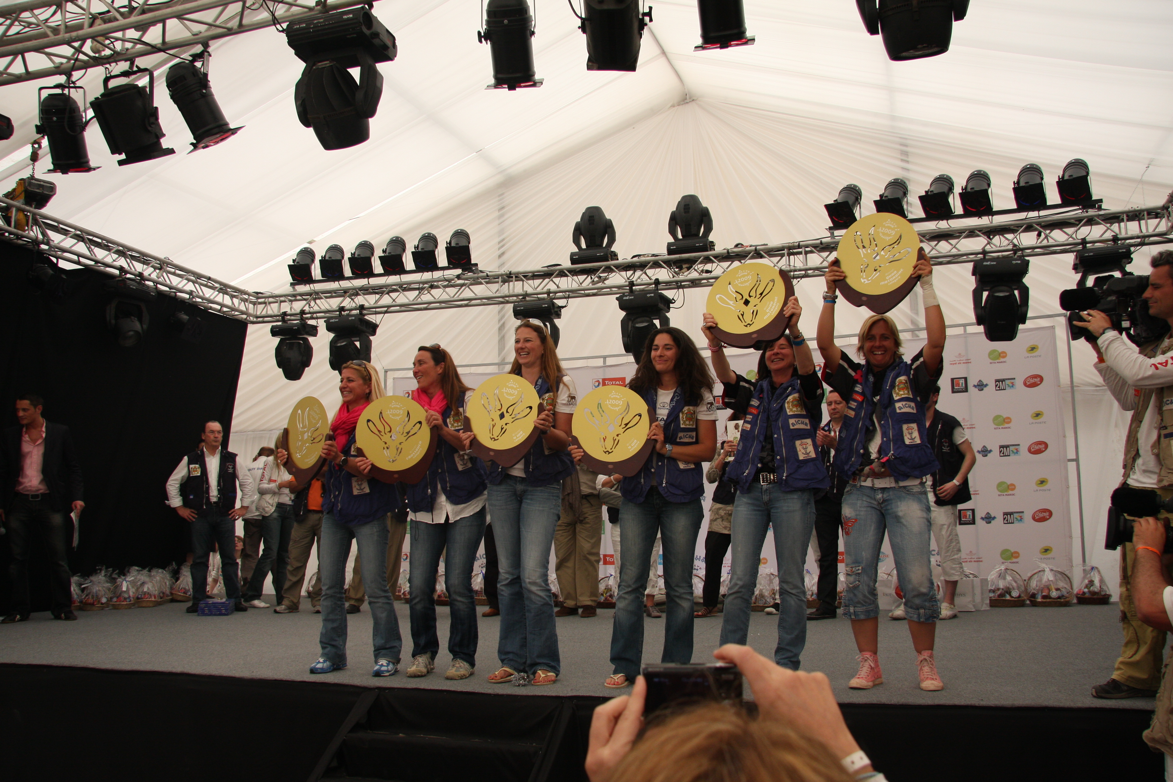 The proud winners of the Rallye Aicha des Gazelles 2009 (from left to right) Anne-Marie Ortola and Jeanette James (Team 307, Mercedes-Benz Viano),Florence Migraine-Bourgnon and Corentine Quiniou (Team 138, Toyota Land Cruiser), Isabelle Castel and Elizabeth Kraft (Team 24, Polaris Sportsman 500)